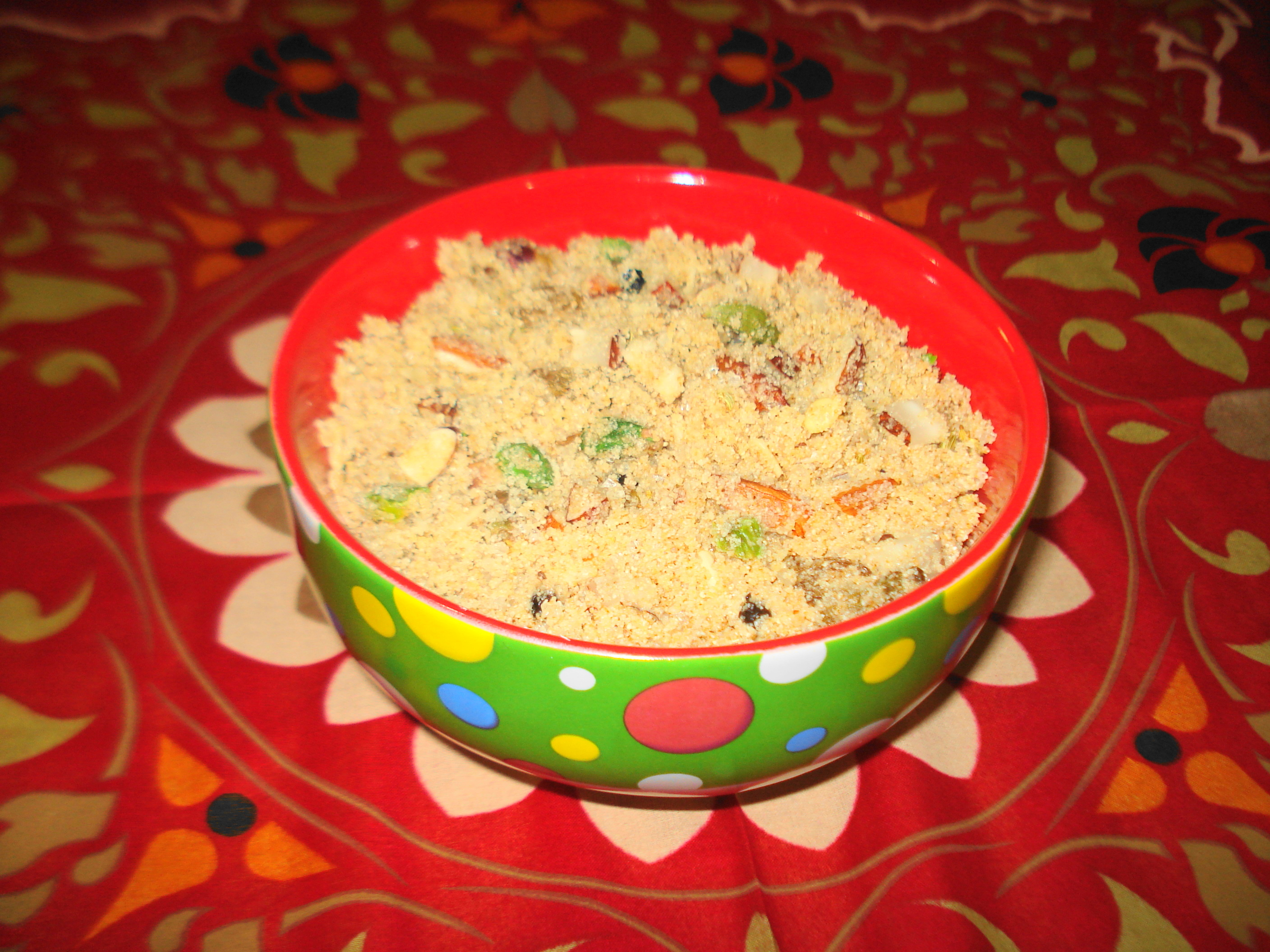 Dessert of winter and new born baby mothers form Punjab